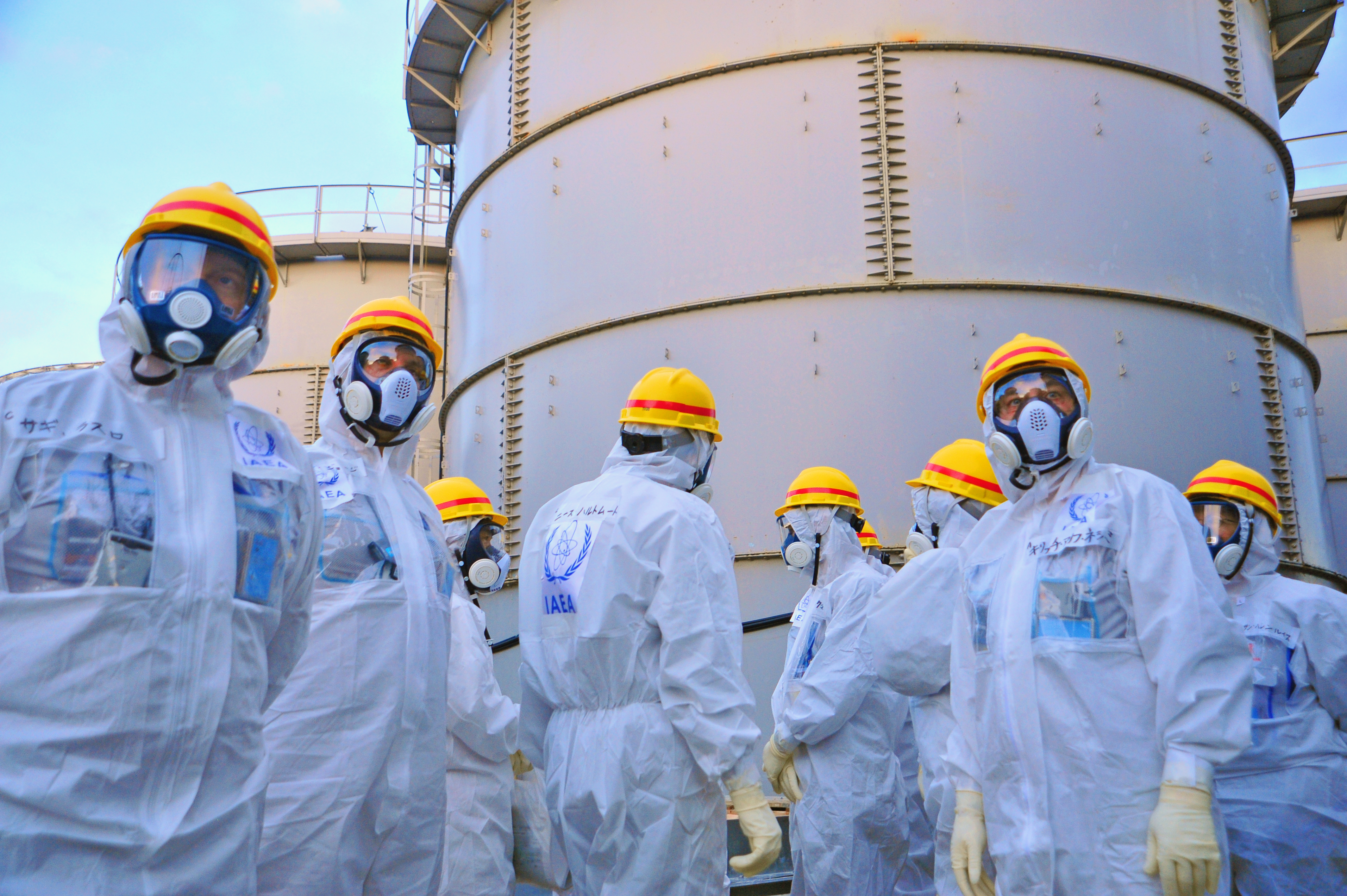 A team of IAEA experts check out water storage tanks TEPCO's Fukushima Daiichi Nuclear Power Station on 27 November 2013. The expert team is assessing Japanese efforts to decommission the stricken nuclear power plant. Photo Credit: Greg Webb / IAEA